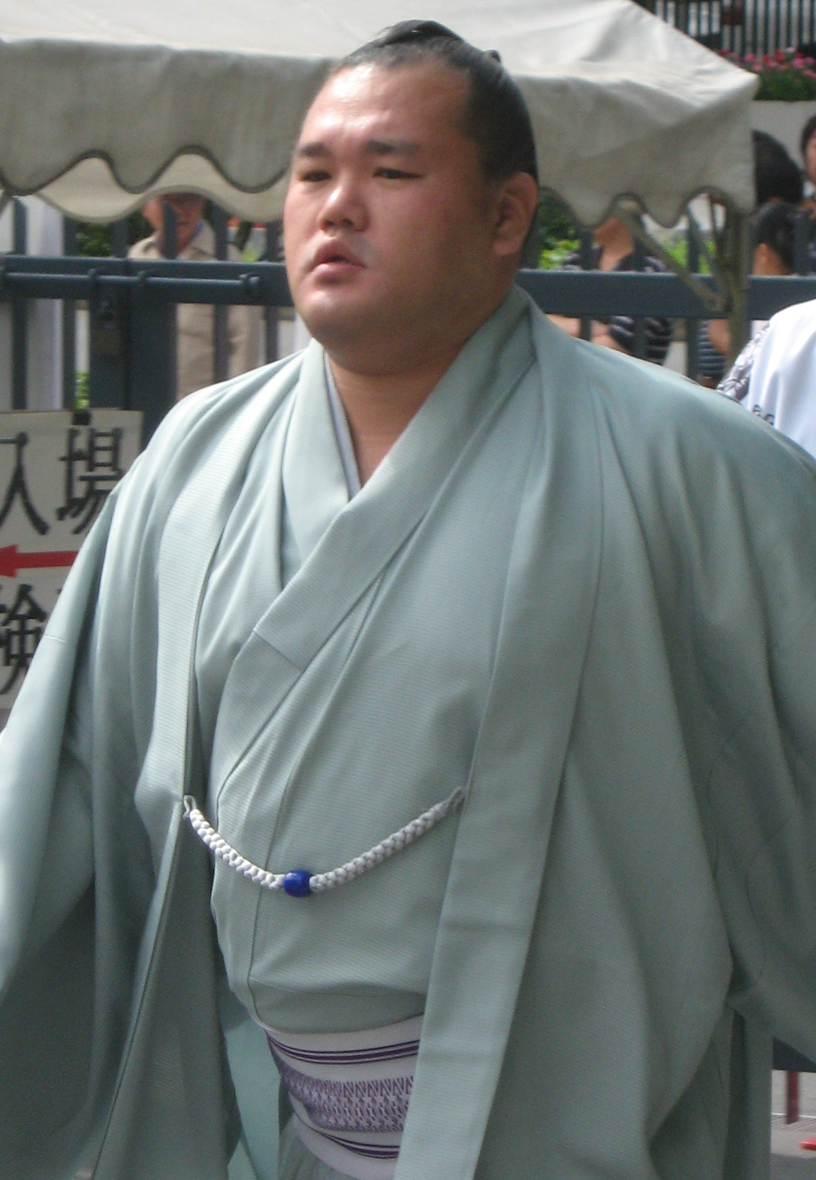 Picture taken at Sep 2008 tournament